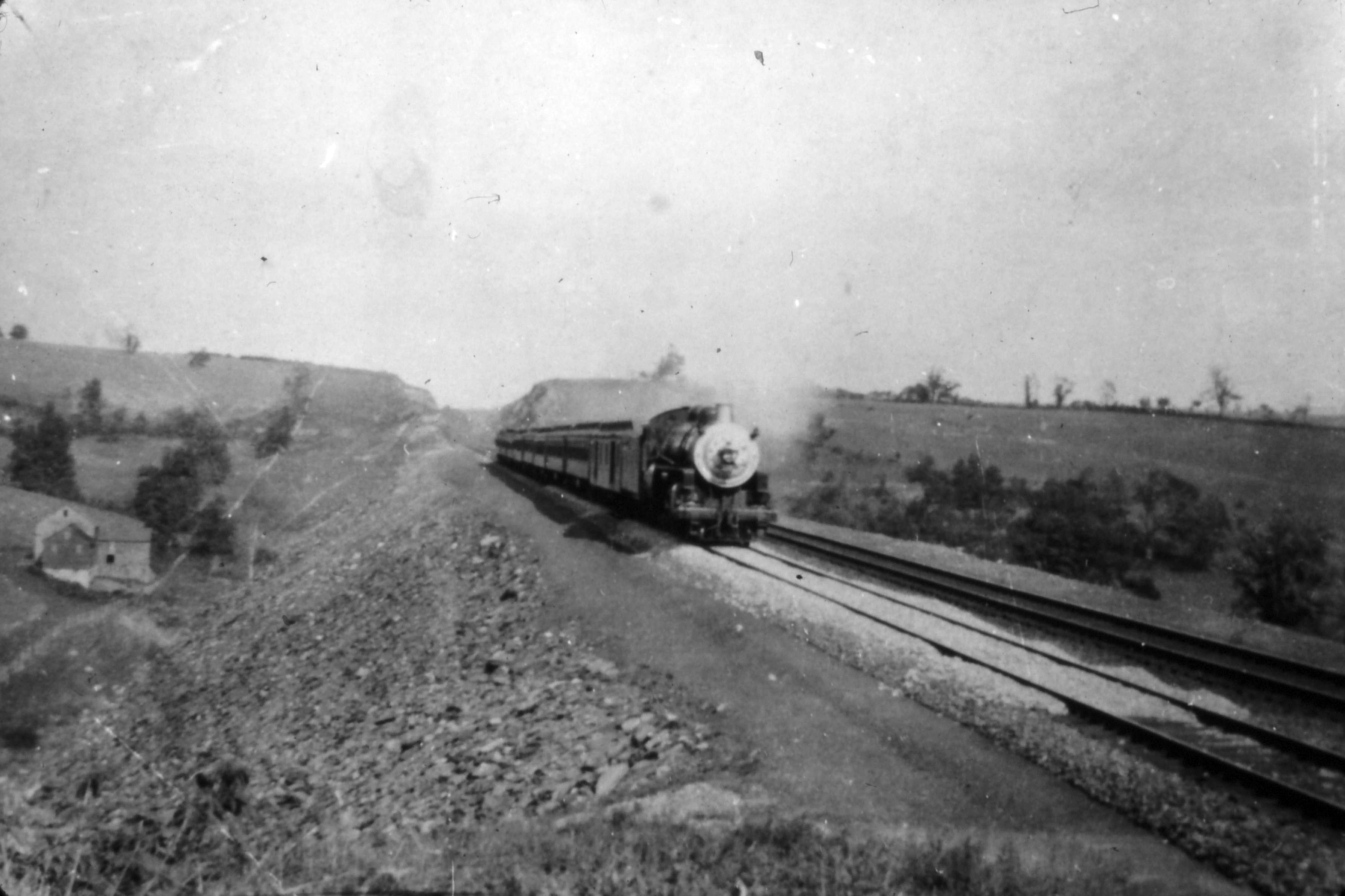 Wm B Bunnell, DL&W RR, 1912, Syracuse Univ glass plate collection Lackawanna Cut-Off